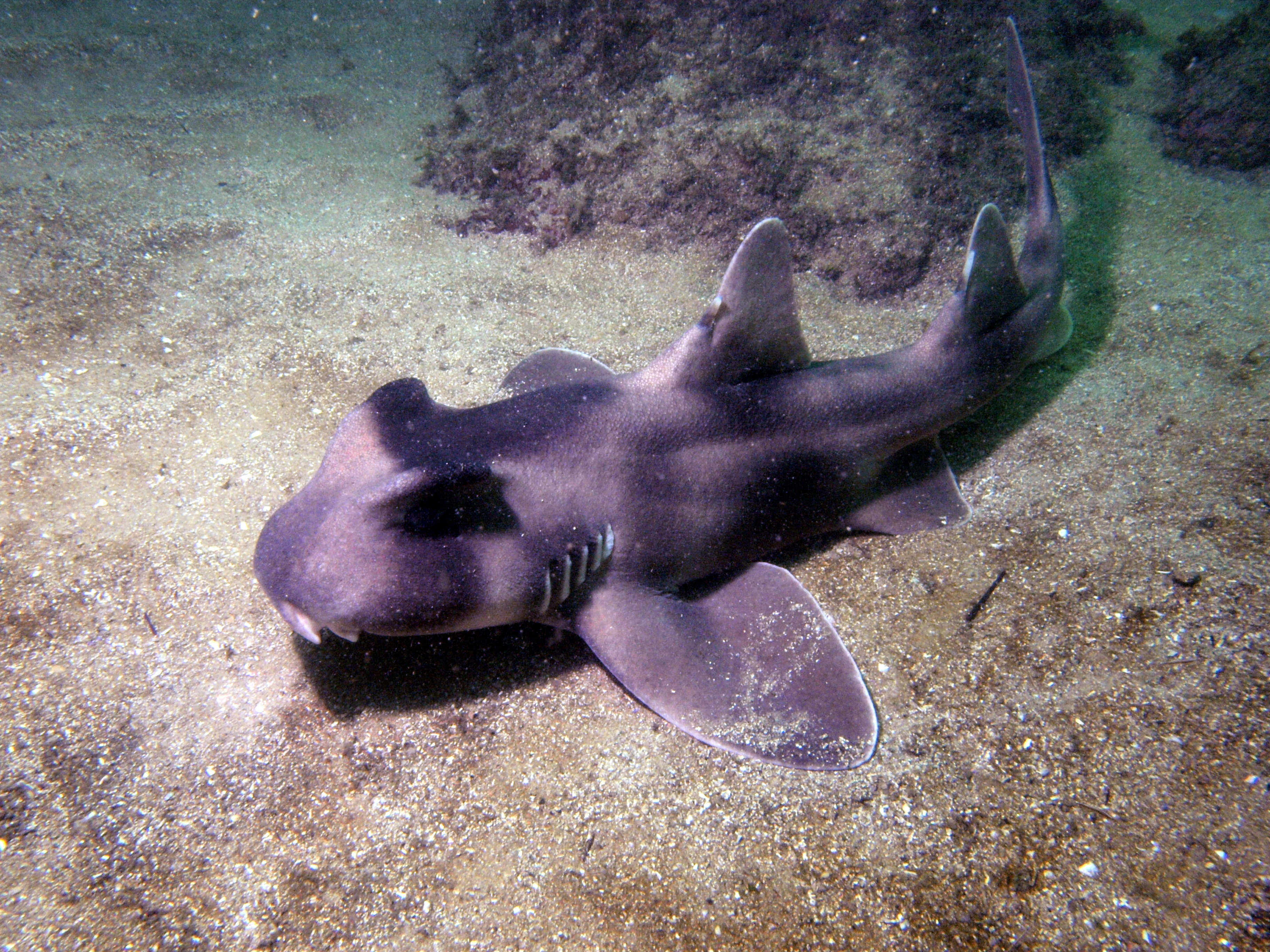 Crested bullhead shark (Heterodontus galeatus) off Bare Island, NSW